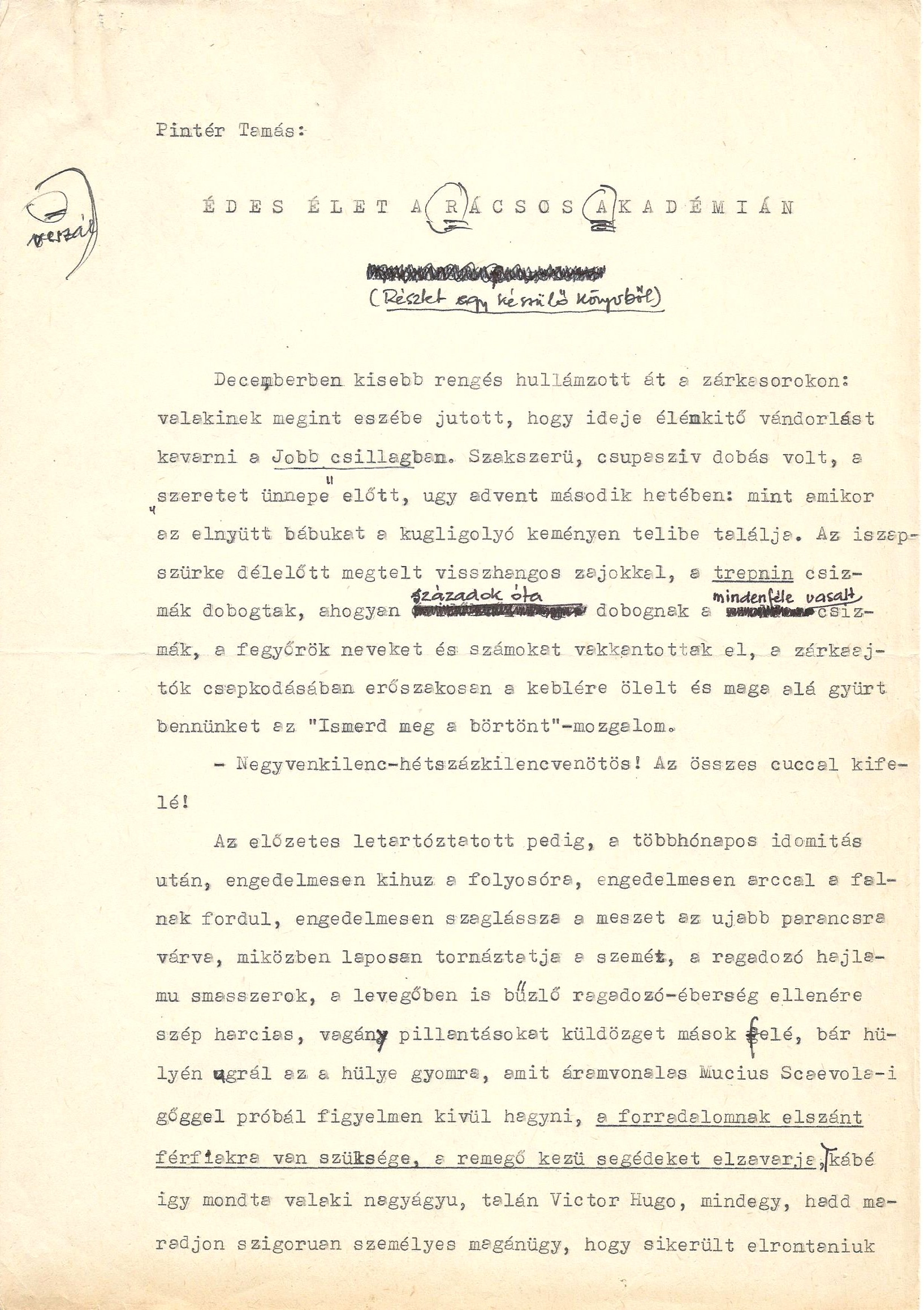 Typescript of Tamas Pinter's short story